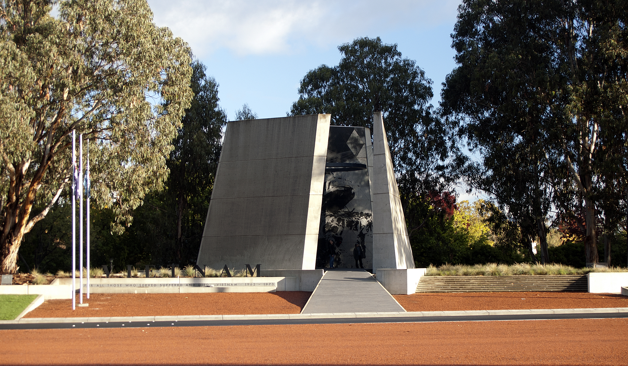 Australian Vietnam Forces National Memorial on ANZAC Parade.